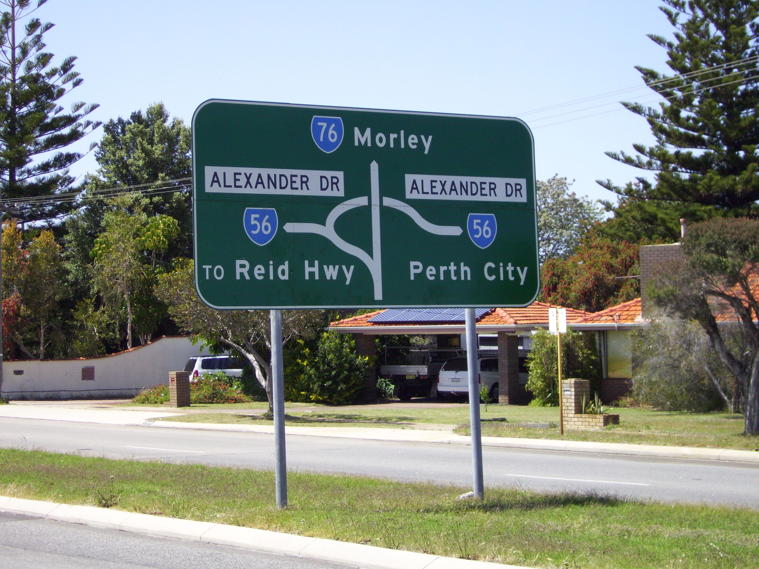 Direction sign on Morley Drive on approach to the hamburger roundabout at Alexander Drive (in Dianella, Western Australia, looking east)